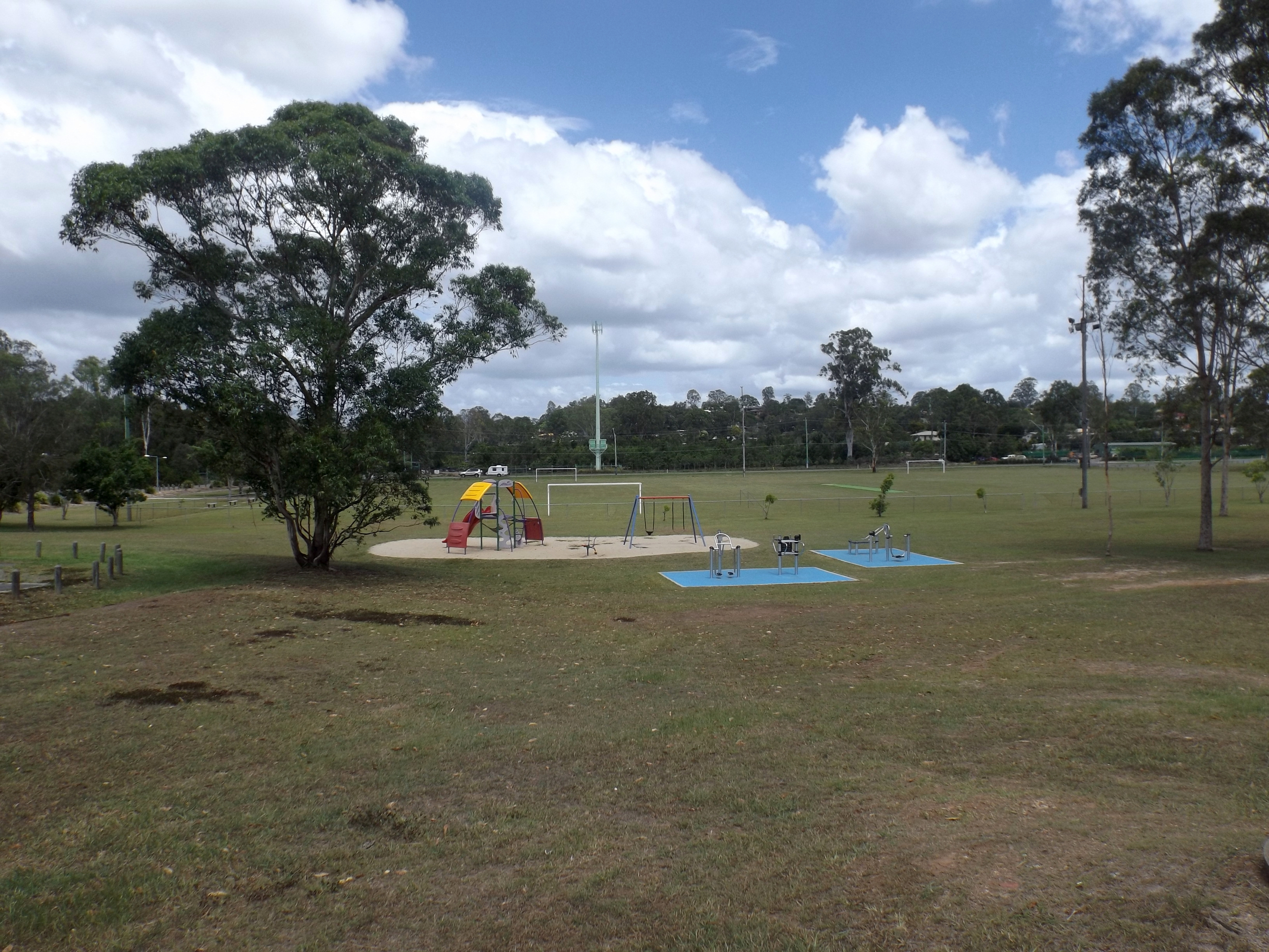 Photo of Tudor Park at Loganholme, City of Logan, Queensland, Australia.